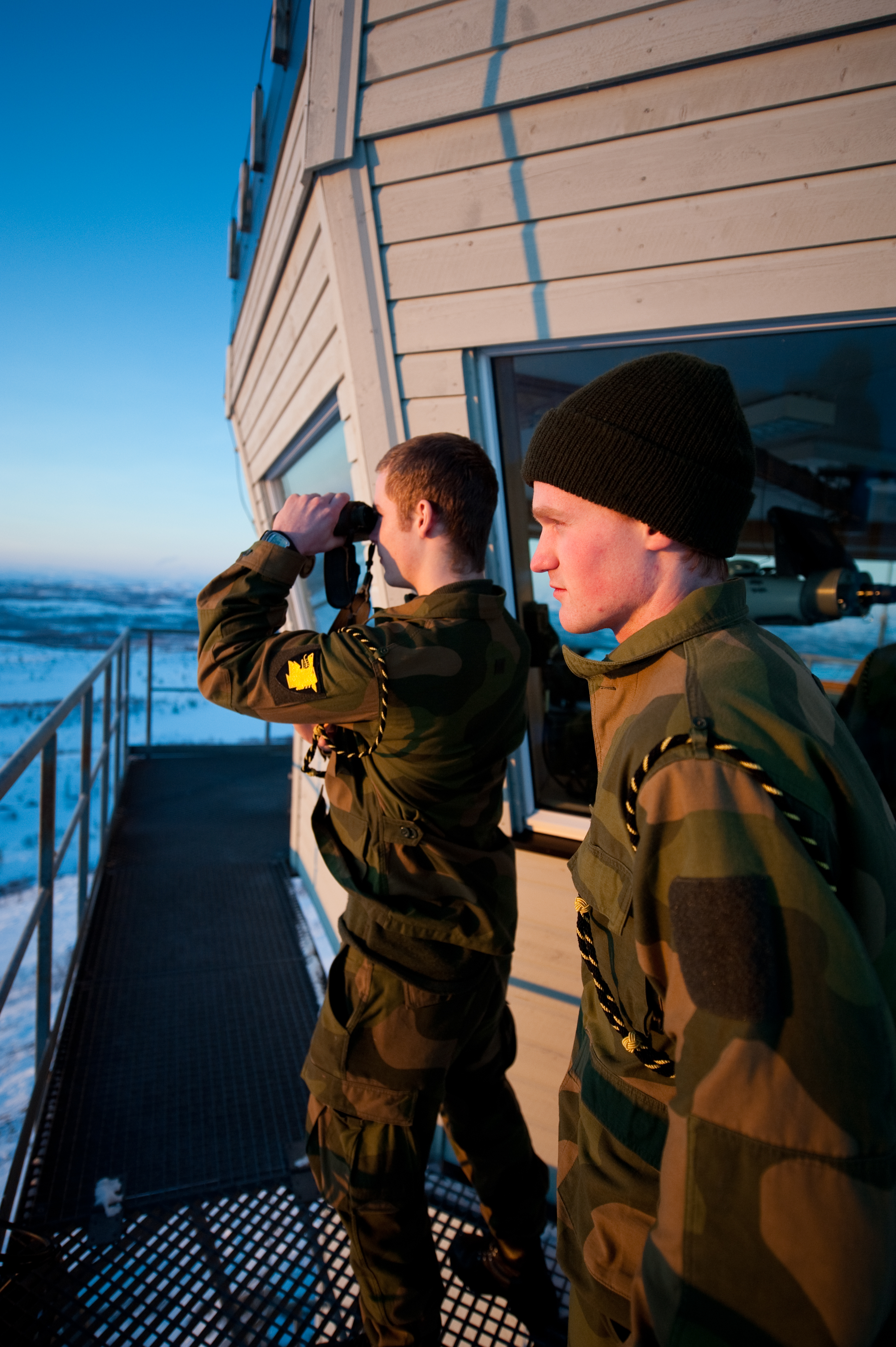 GSV (23 of 46)